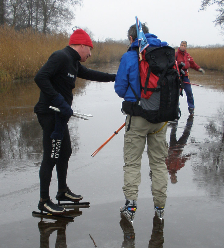 Two skaters. Dutch and Swedish style on a canal in Holland